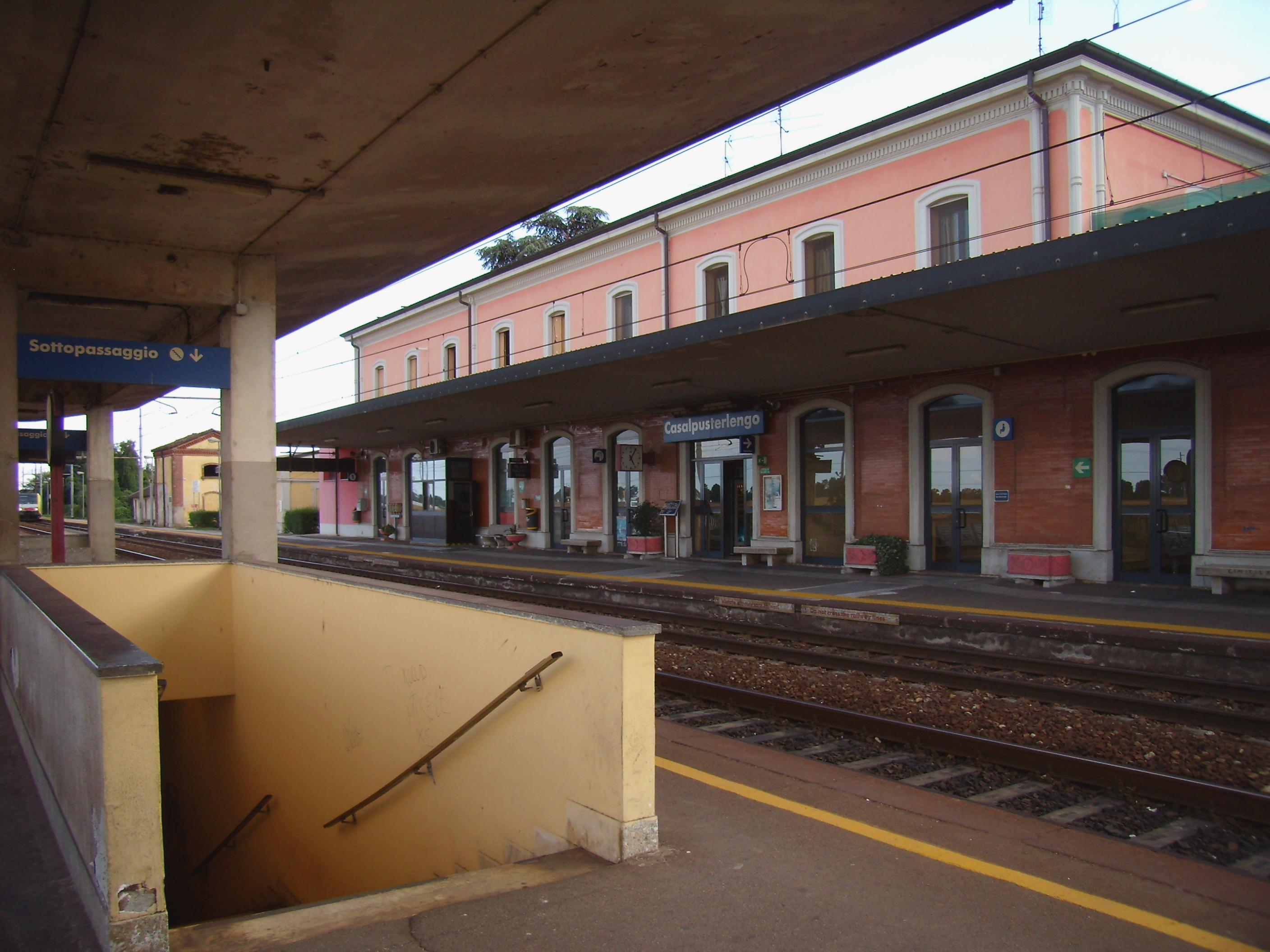 Railway station in Casalpusterlengo.